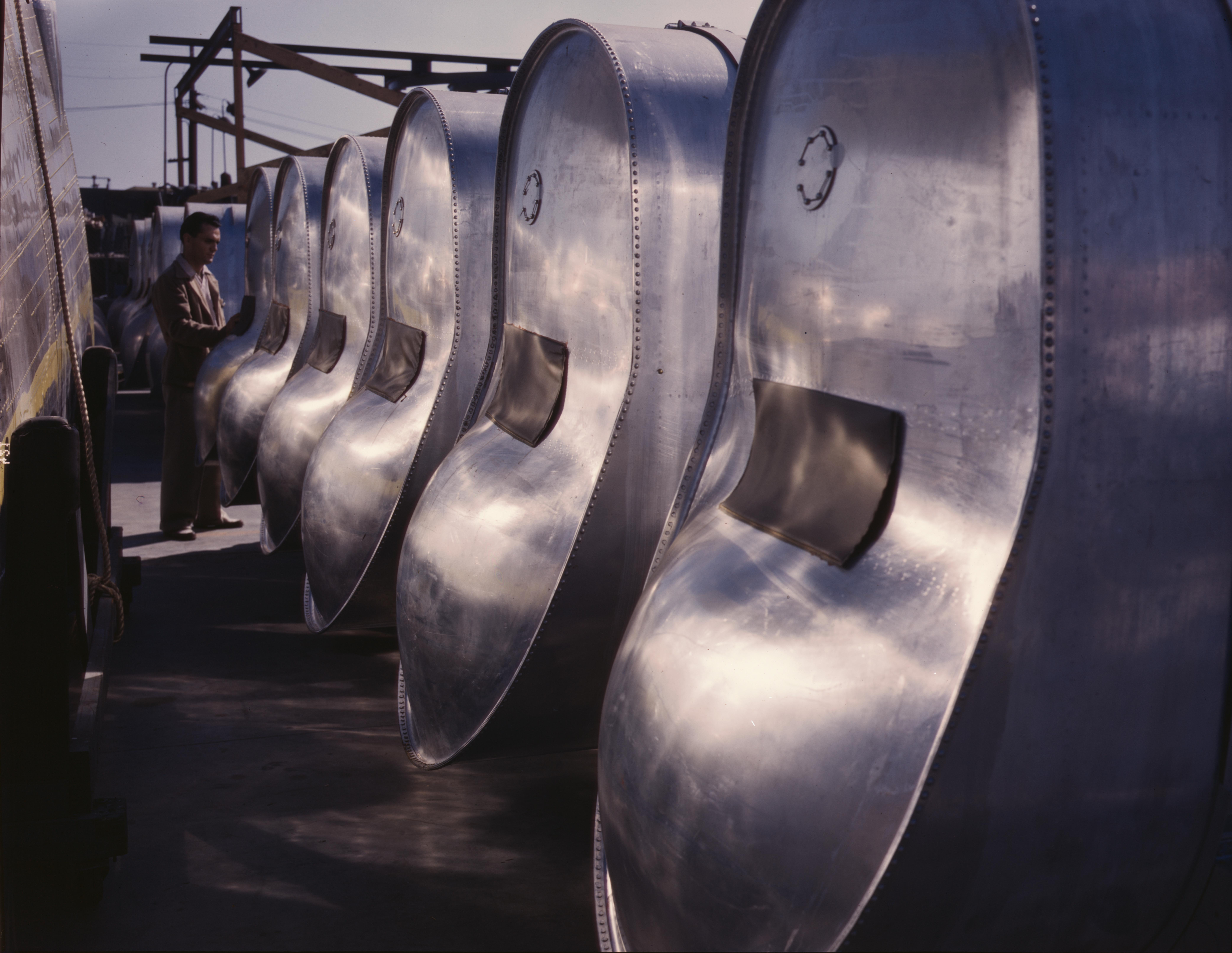 Bomb bay gasoline tanks for long flights of B-25 bombers await assembly in the plant of North American Aviation, Inc., Inglewood, Calif. This plant produces the battle-tested B-25 ("Billy Mitchell") bomber used in General Doolittle's raid on Tokyo, and the P-51 ("Mustang") fighter plane which was first brought into prominence by the British raid on Dieppe.